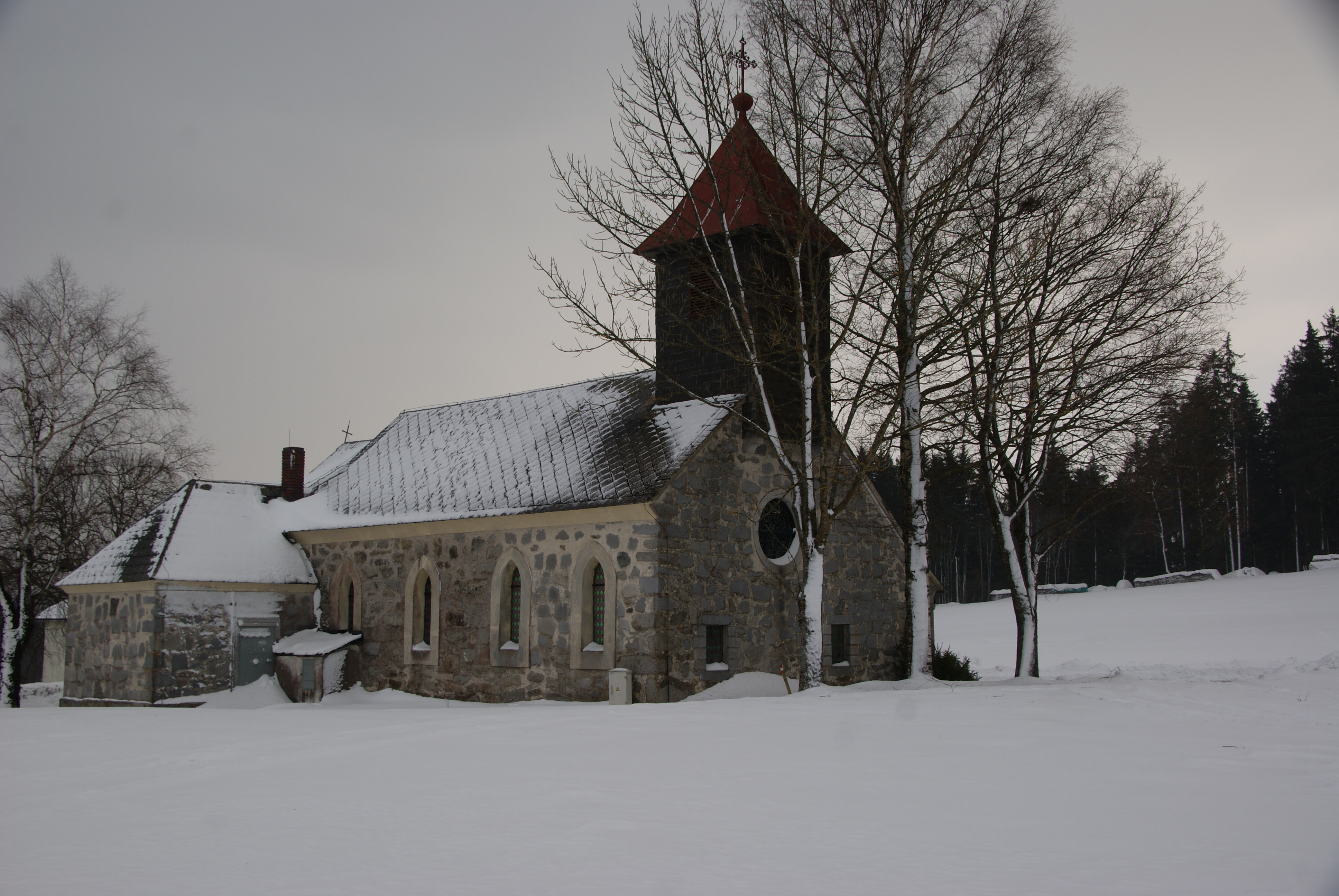 Church of Schöneben, Liebenau, Upper Austria